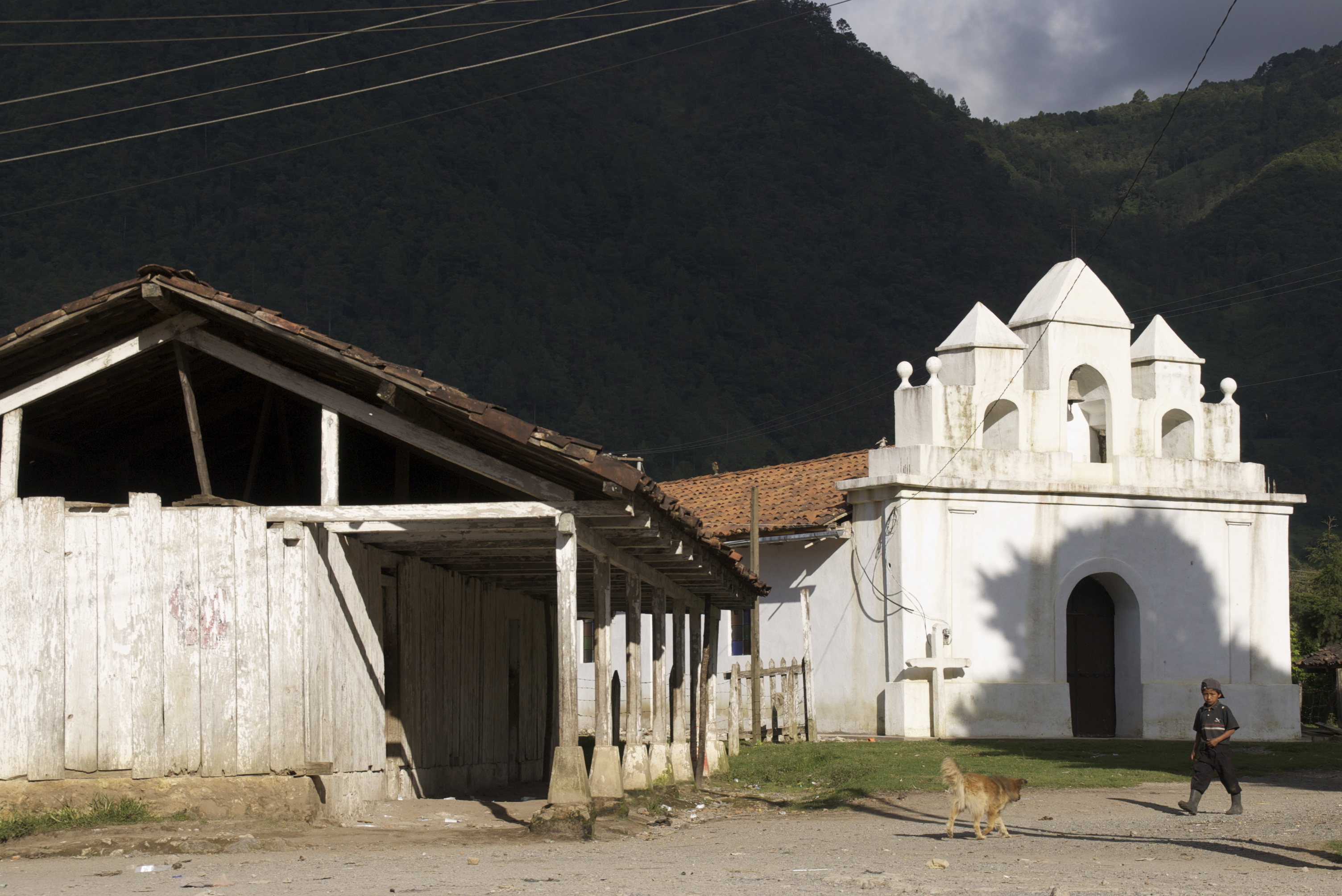 Catholico church of Acul a village in the Ixil triangle in El Quiché, Guatemala.